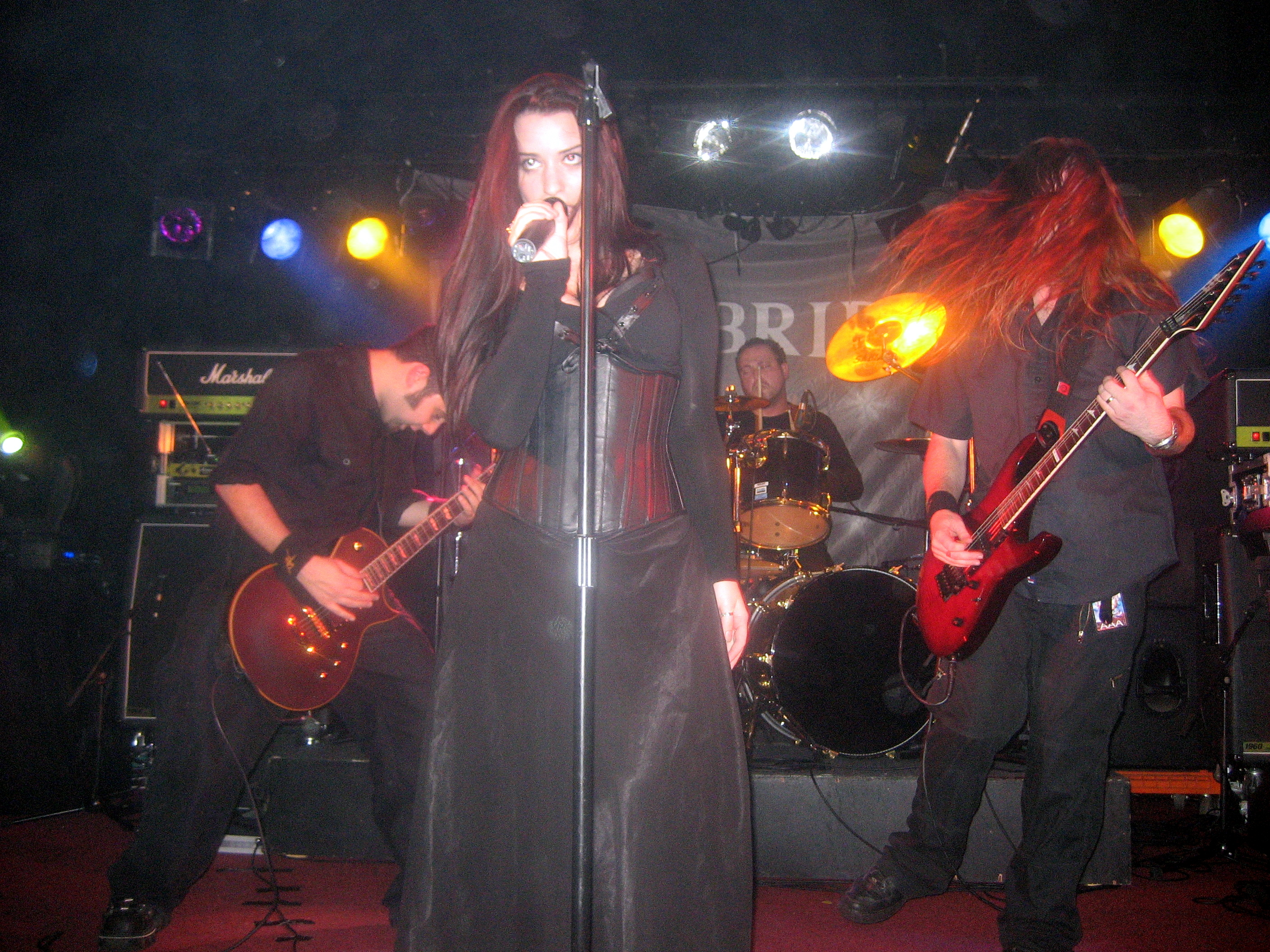 Austrian Symphonic metal band